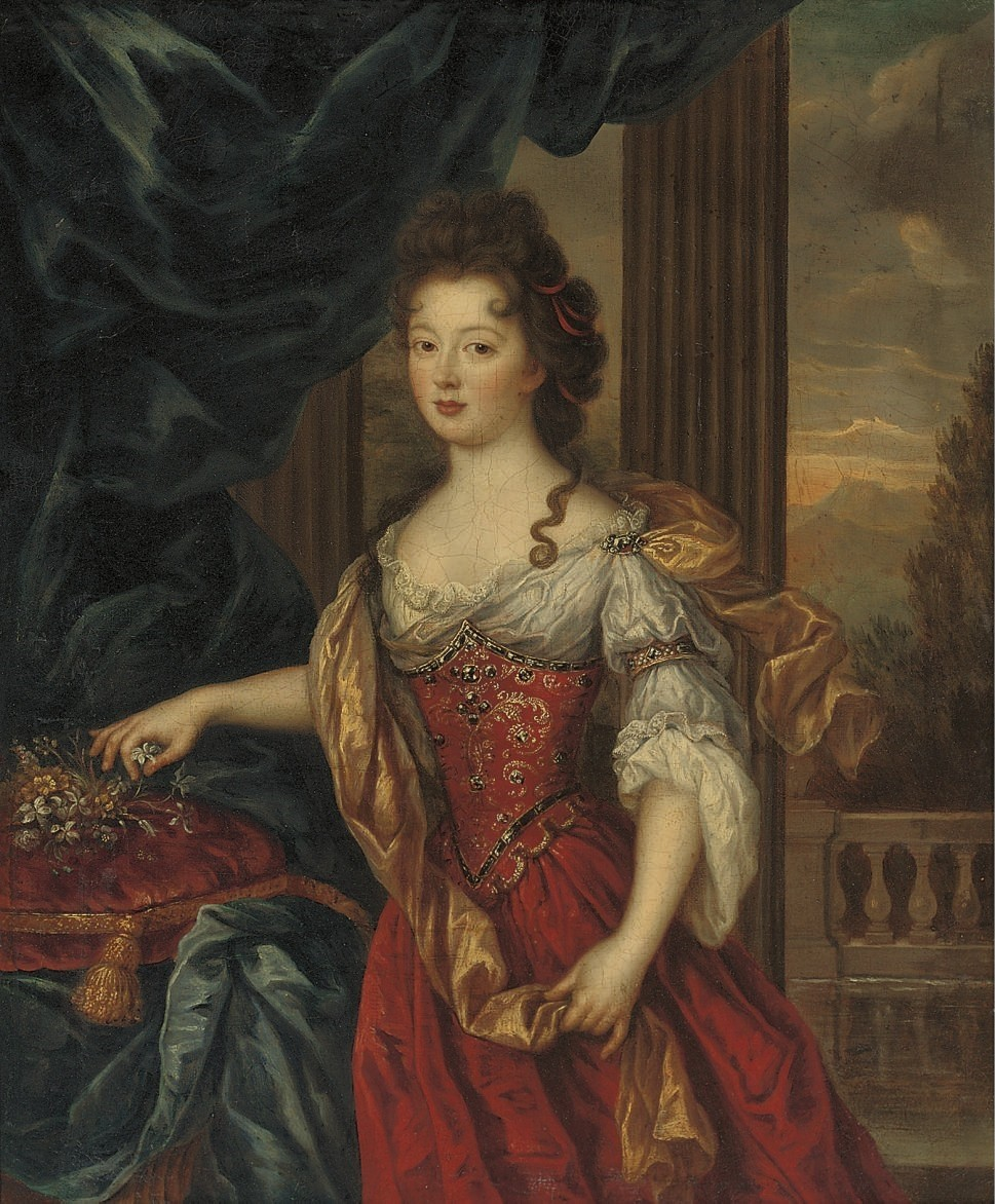 Marie Thérèse de Bourbon (1666-1732) dressed in a red and gold gown